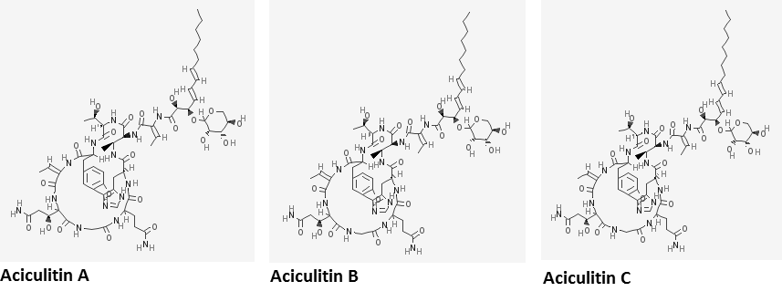 Aciculitin A-C